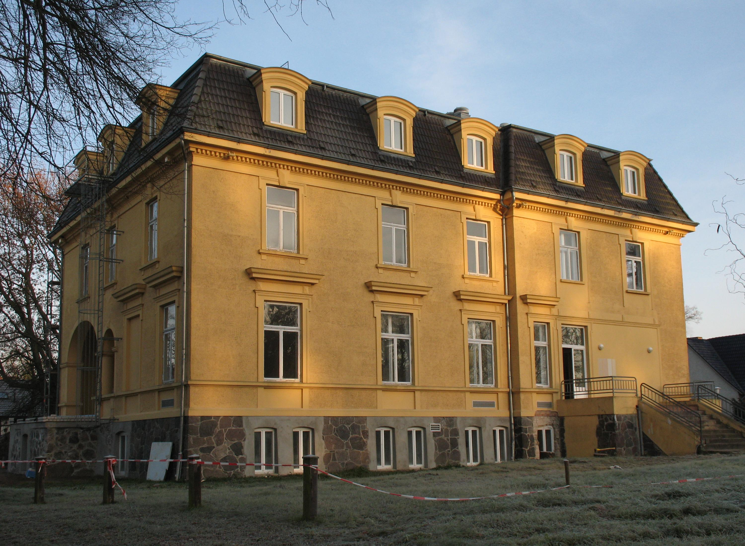 Manor in Leizen in Mecklenburg-Western Pomerania, Germany